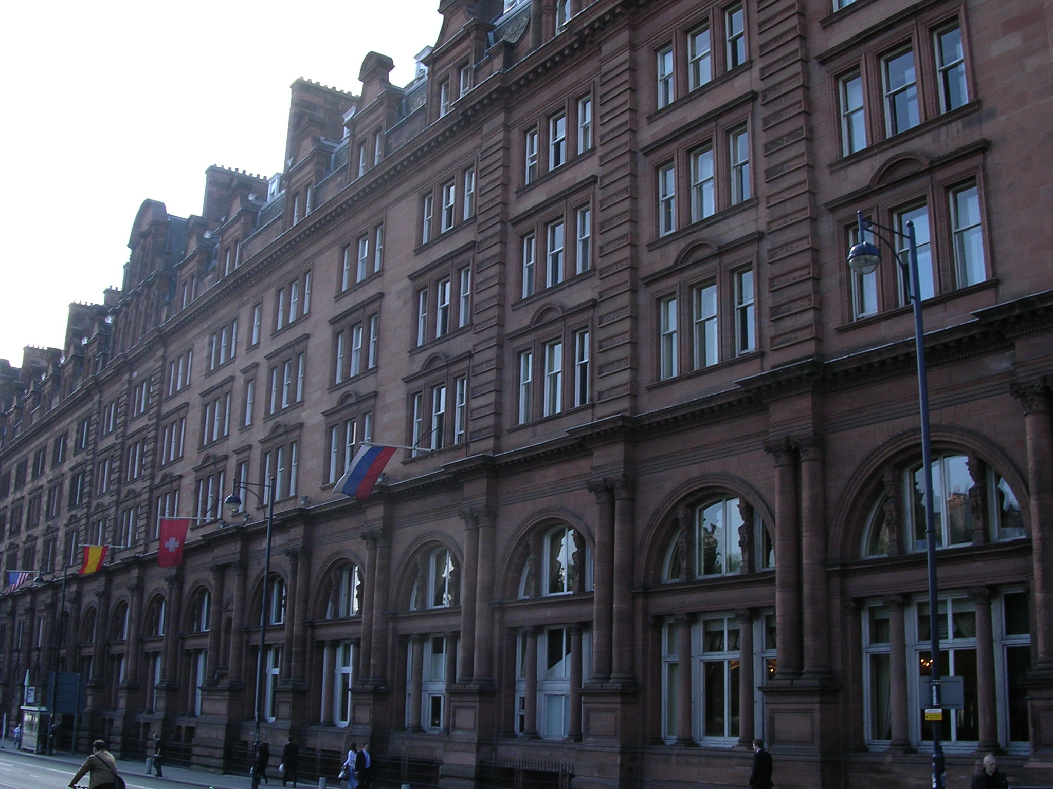 Caledonian Hilton Hotel, photographed by myself 21 August 2006